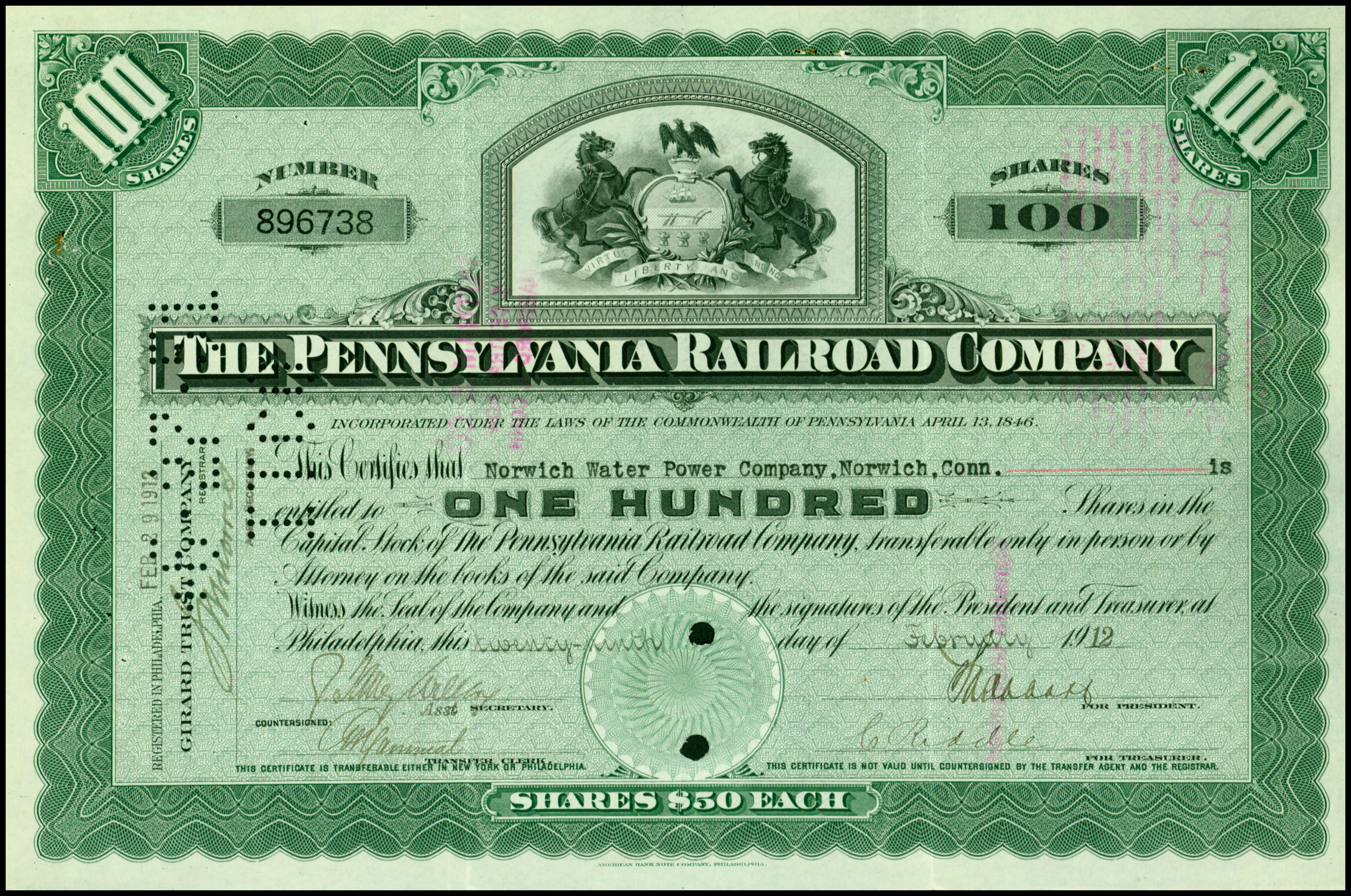 Share of the Pennsylvania Railroad Company, issued 29. February 1912